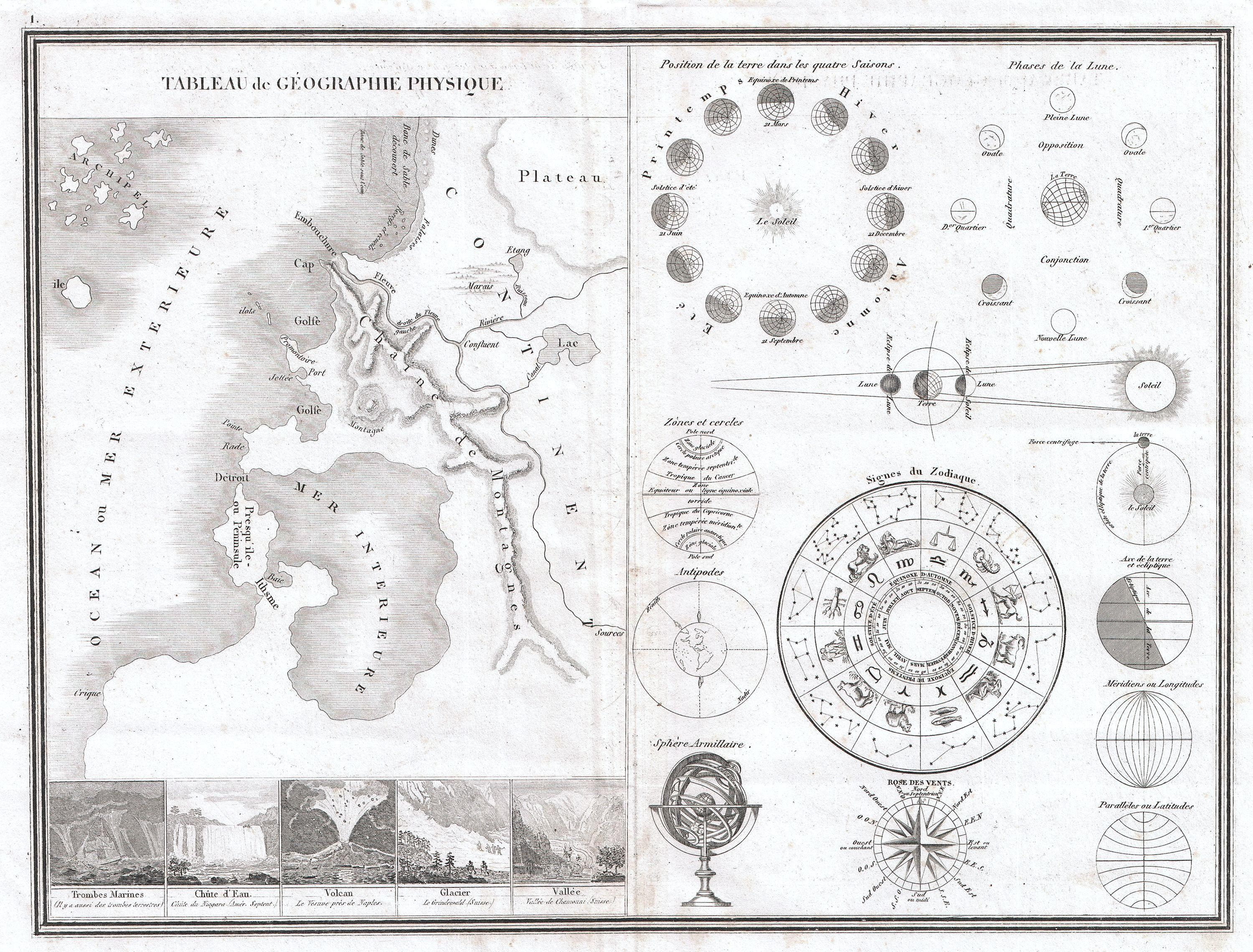 This is a very unusual 1838 map and astronomical chart by M. Monin. Divided into two sections. The left section is a Geographical Tableau, essentially a map of nothing, showing various geographical features and how they can be displayed. Shows mountains, plains, gulfs, seas, archipelagos, swamps, lakes rivers and plateaus, among others. Along the bottom there are five engraved images of geographical sights and events including tornadoes at sea, a waterfall, a volcano erupting, a glacier and a valley. The right side of this map is a Astronomical chart, itself divided into various elements. Includes a diagram of the seasons, a map of the phases of the moon, a representation of the Zodiac, a lunar and solar eclipse diagram, an Armillary sphere, etc… Prepared by M.Monin as plate no.